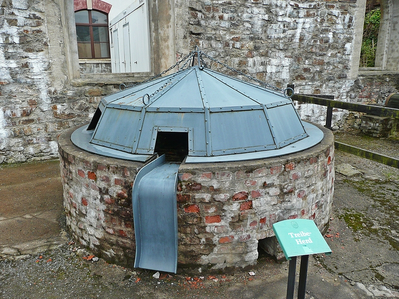 Olbernhau-Grünthal, historic copperworks, industrial furnace.